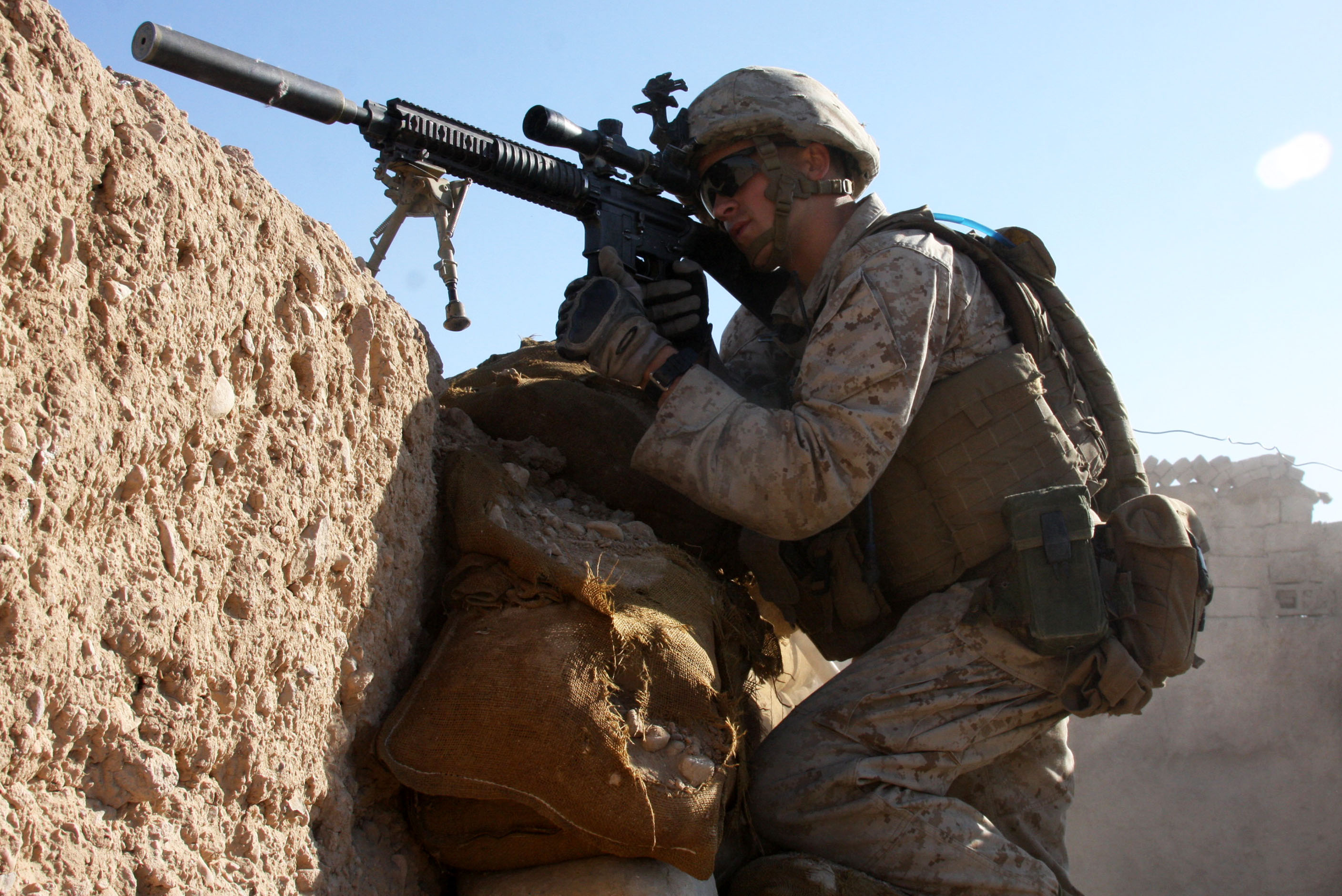 U.S. Marine Corps Lance Cpl. Steven J. Zandstra provides security at a checkpoint in Sangin, Helmand province, Afghanistan, on Nov. 1, 2010. Zandstra is assigned to Police Advisor Team 1, 3rd Battalion, 5th Marine Regiment, Regimental Combat Team 2, whose mission is to conduct counterinsurgency operations in partnership with the International Security Assistance Force.